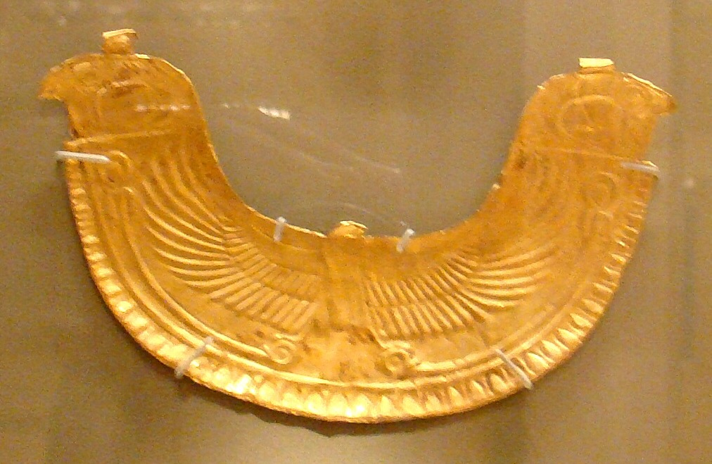 Golden Pectoral of Ip Shemou Abi, King of Byblos (Phoenicia). Beirut National Museum